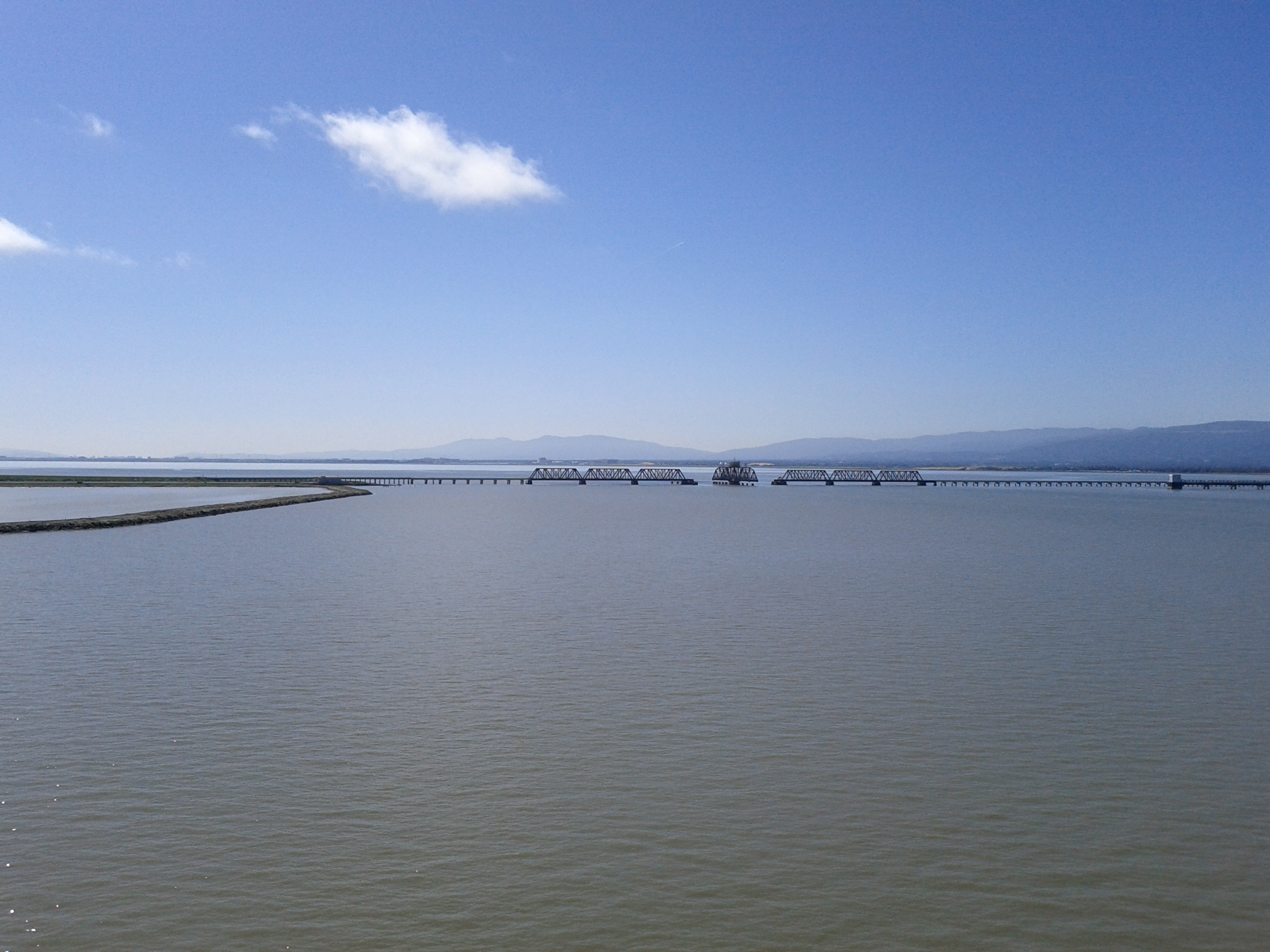 Dumbarton railroad bridge from Dumbarton Bridge